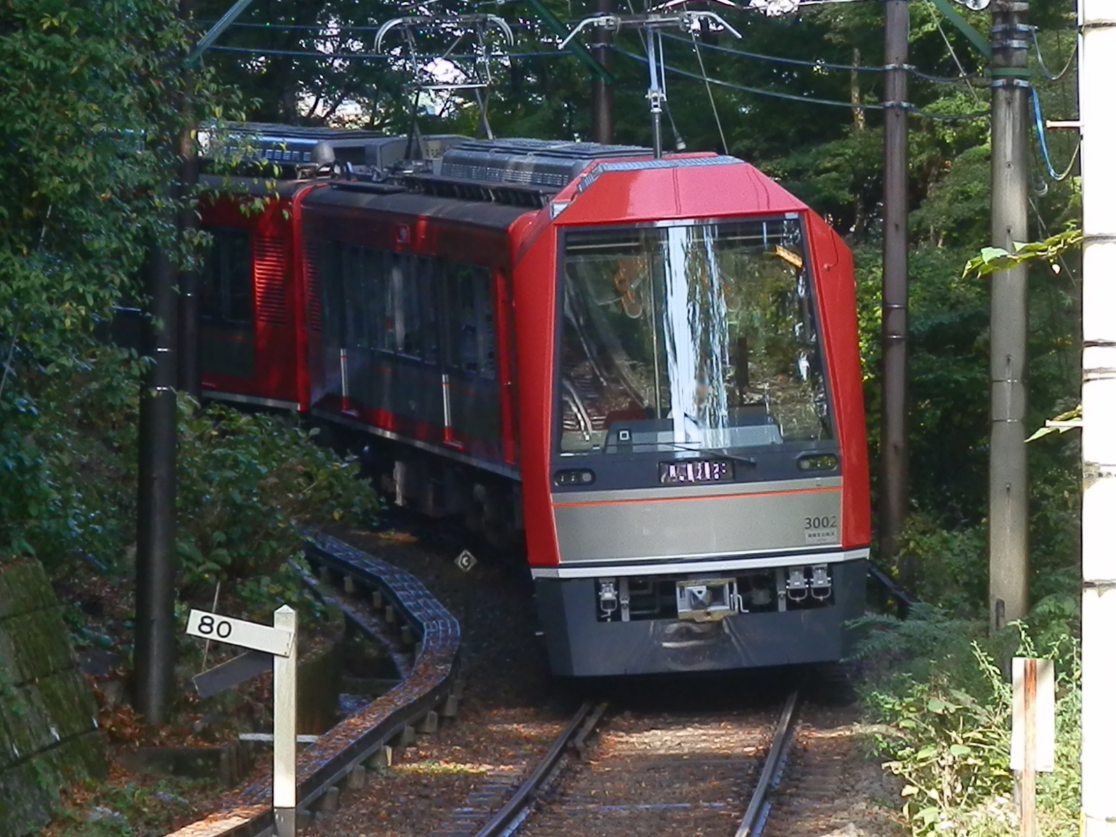 Hakone Tozan Railway series 3000 "Allegra" EMU car 3002 approaching Miyanoshita Station on the 80‰ grade section